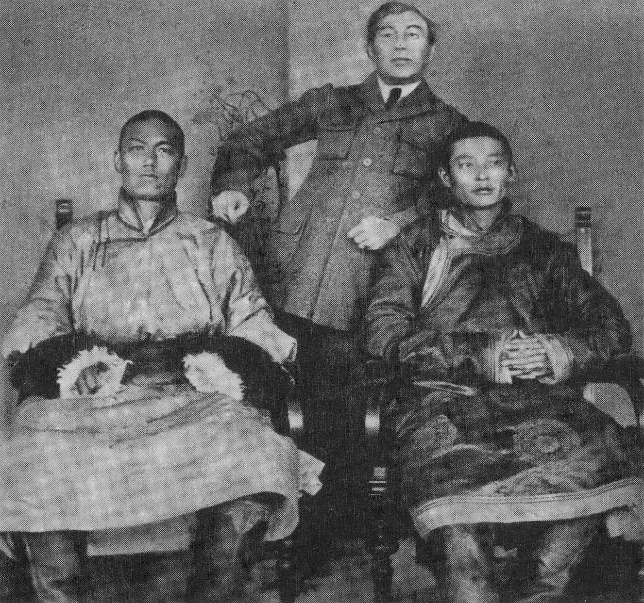 Damdin Sükhbaatar and Khorloogiin Choibalsan